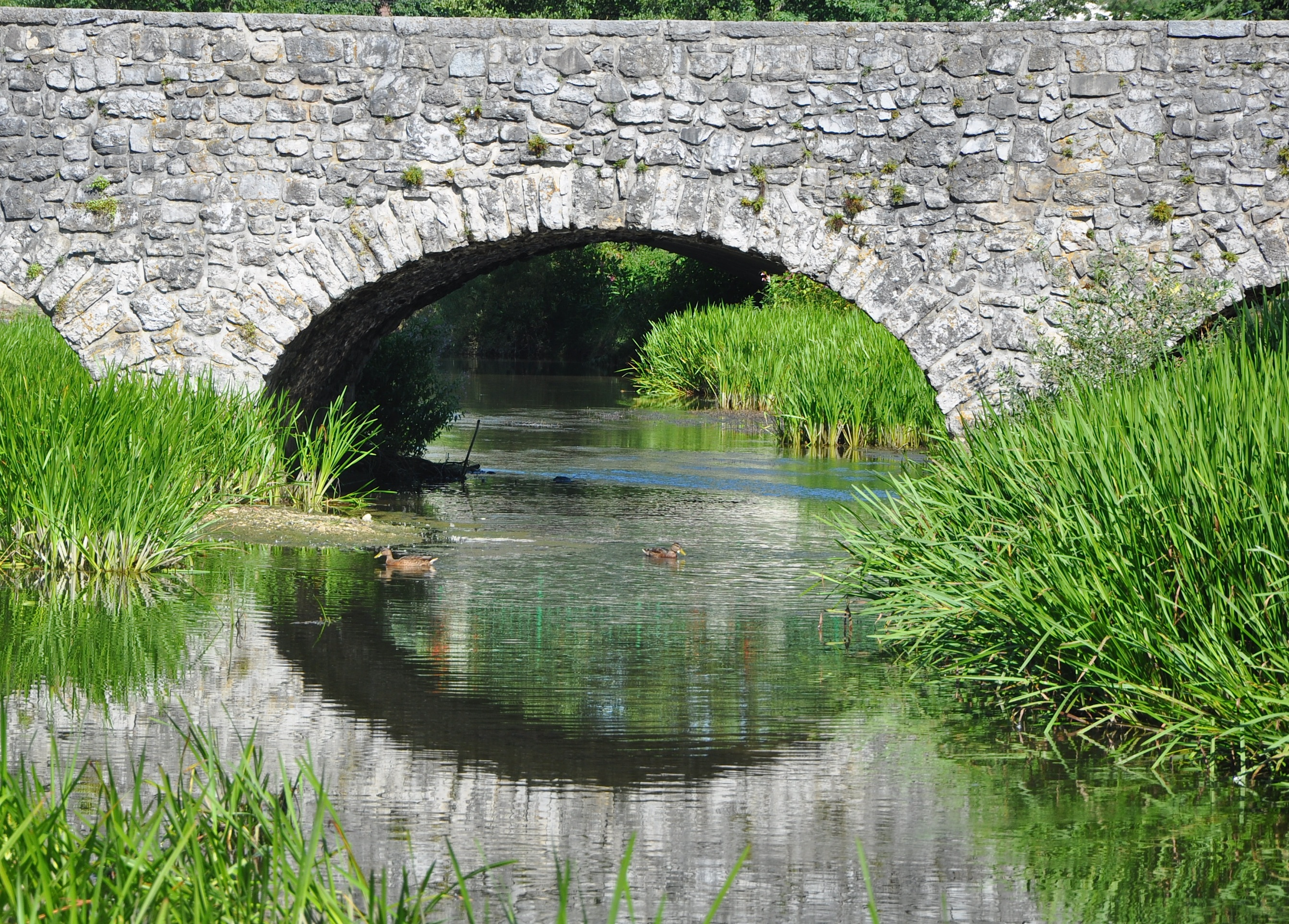 Bistrica, river in Ribnica town, Slovenia. The stone arch bridge was built in 1665.